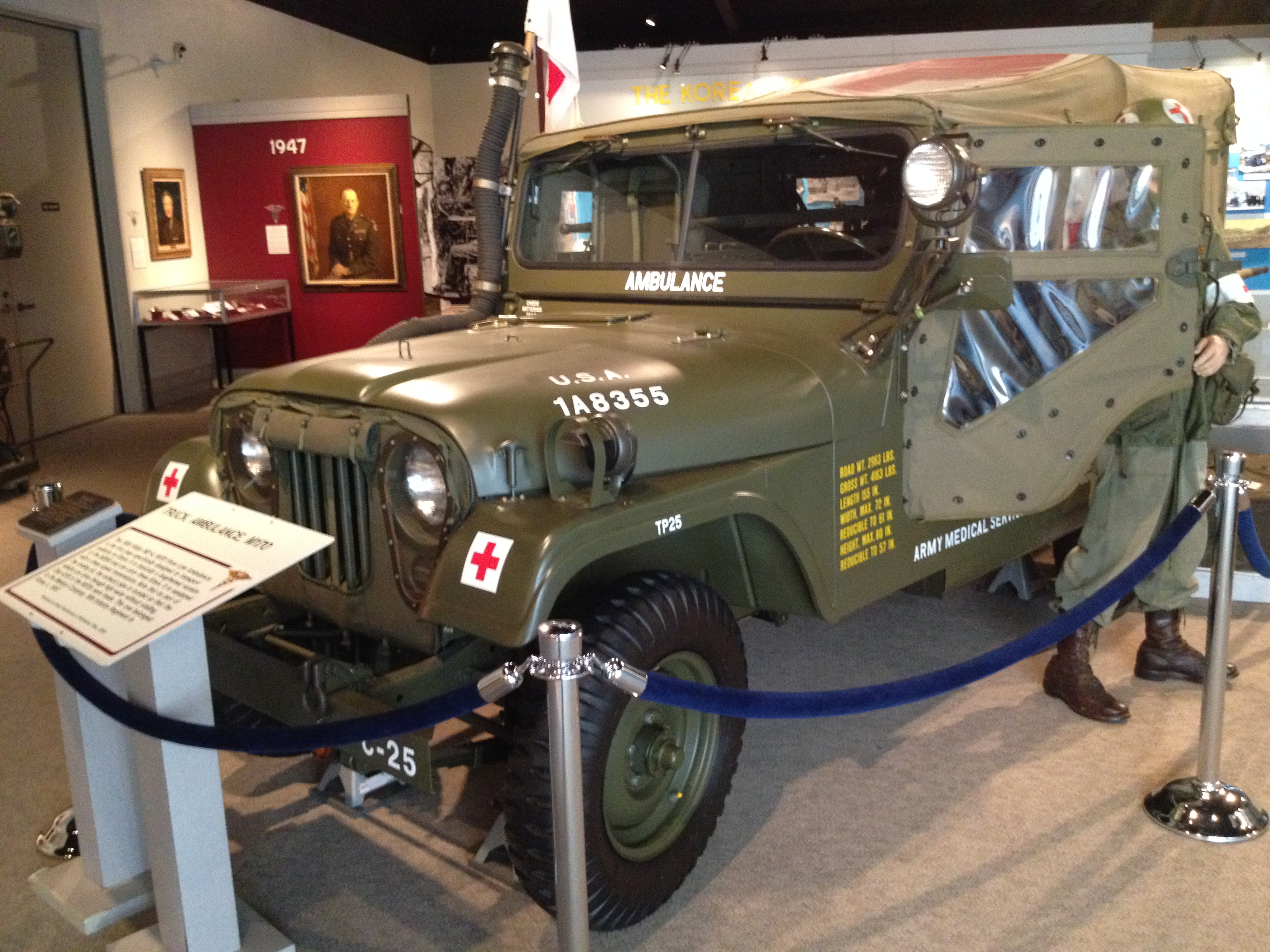 M170 ambulance at Fort Sam Houston